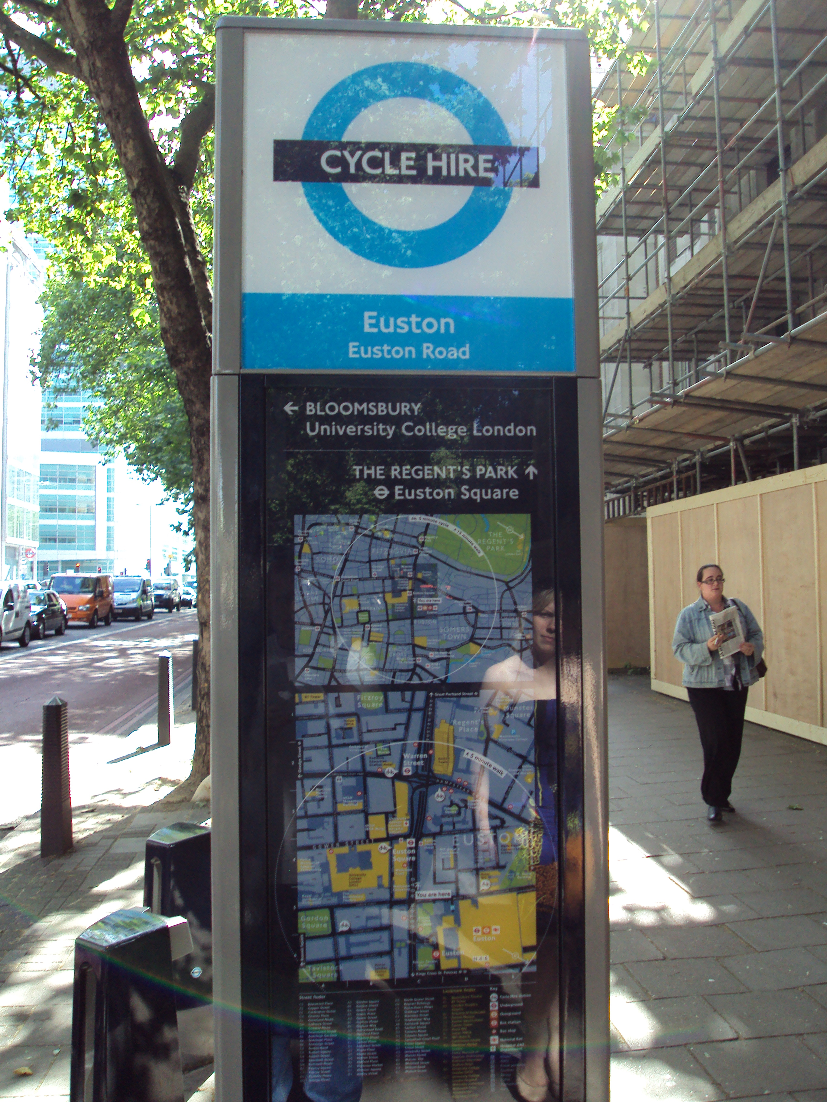 Cycle hire point on Euston Road, London.